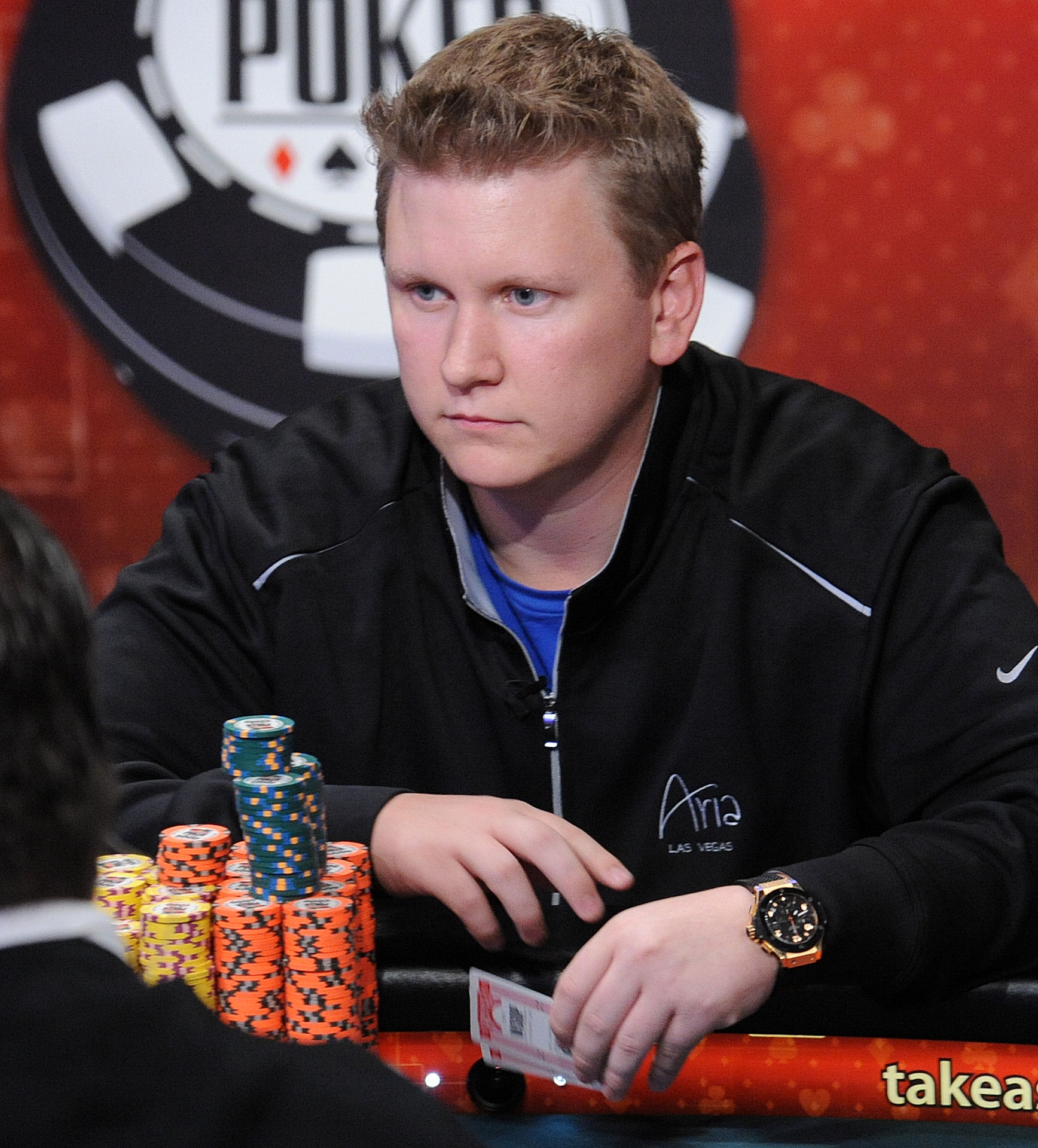 'Ben Lamb at the $10,000 Buy-in No-Limit Hold'em Main Event at the 2011 World Series of Poker.